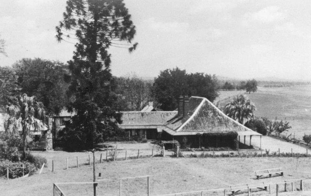 Cressbrook dwelling, The Cottage, overlooking the Brisbane River near Toogoolawah Cressbrook was established in 1841 by David McConnel and his brother John in the Brisbane Valley. It was the first pastoral run to be settled east of the Great Dividing Range in the Moreton Bay District. They farmed the land and ran beef cattle. Later they established a condensed milk factory in the area.The original homestead at Cressbrook is still standing, and is still owned by the McConnel family, the fourth generation of ownership.